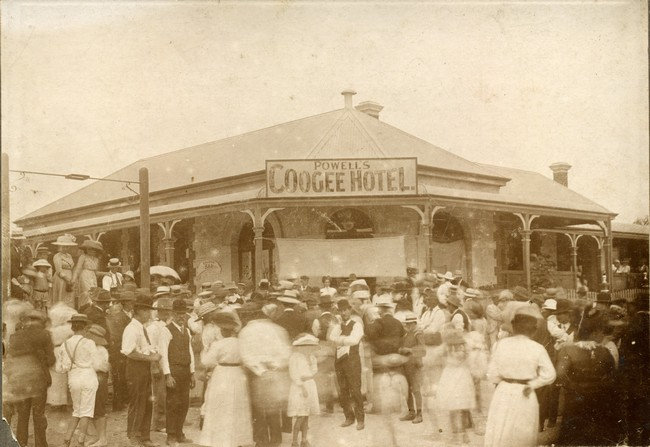 Crowd of people standing in the courtyard of Powell's Coogee Hotel in the early 1900s. Probably gathered for a sporting event, such as a horse race at Powell's racetrack, or a cycling club gathering, which were frequent in the early years of the 20th century in the area.